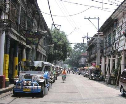 This is a portion of Hidalgo Street towards the San Sebastian church.